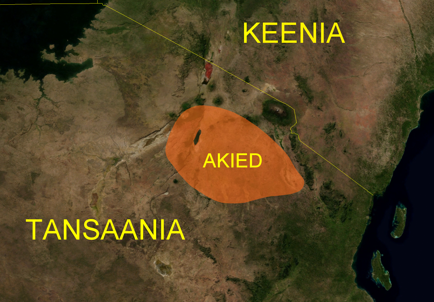 Akie tribe in Tanzania